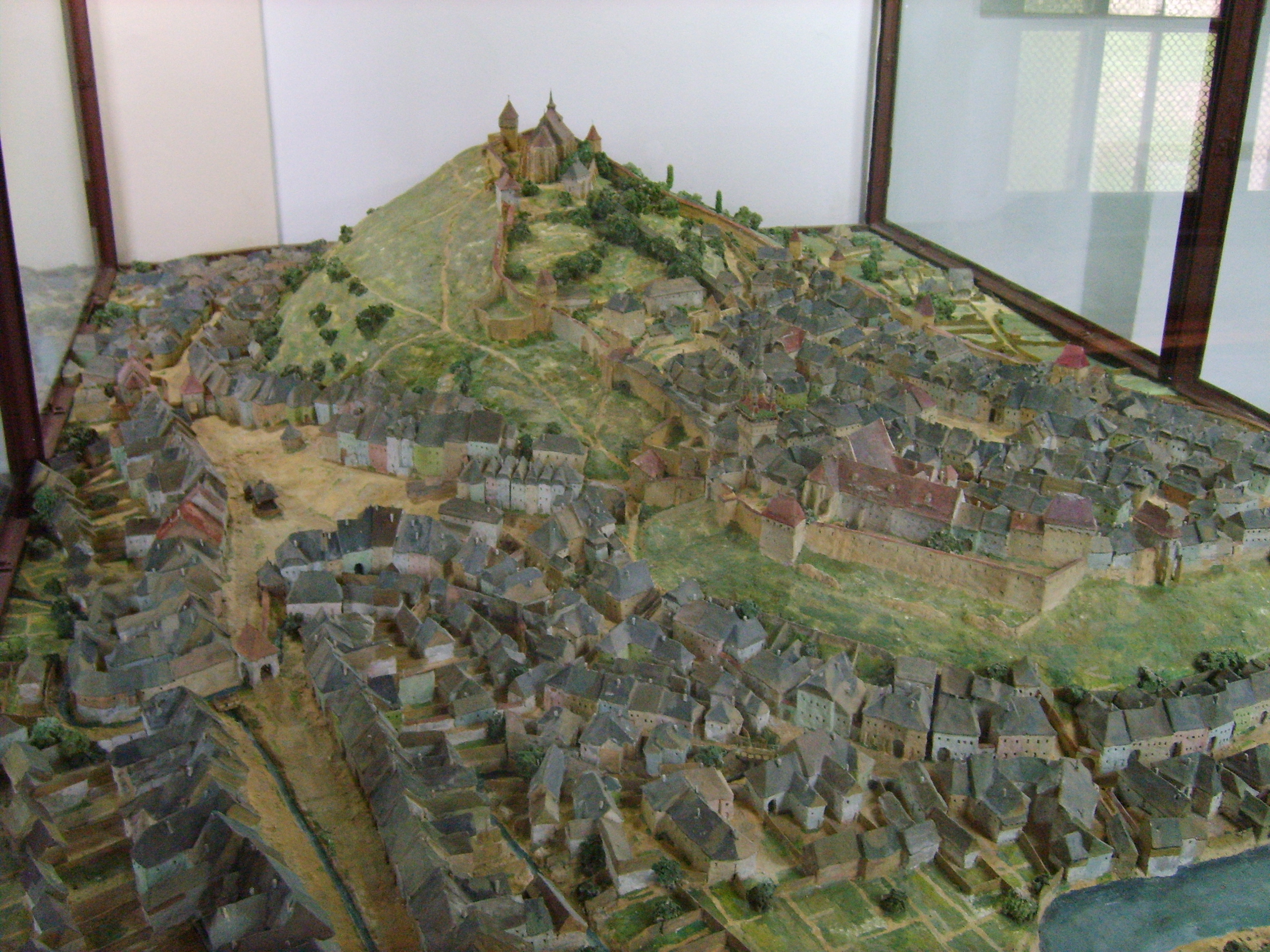 A plastic model of the city of Sighisoara. The model is in the museum inside the clock tower.